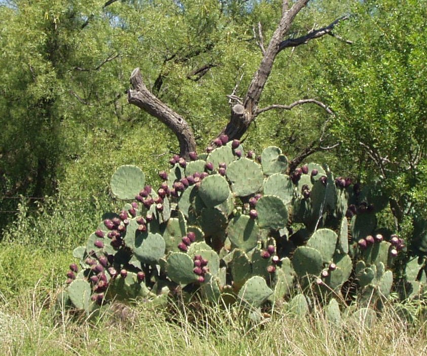 Prickly pear in central texas (crop) — species likely Opuntia engelmannii var. lindheimeri. The leaves look much alike that of common tree leaves from a distance...